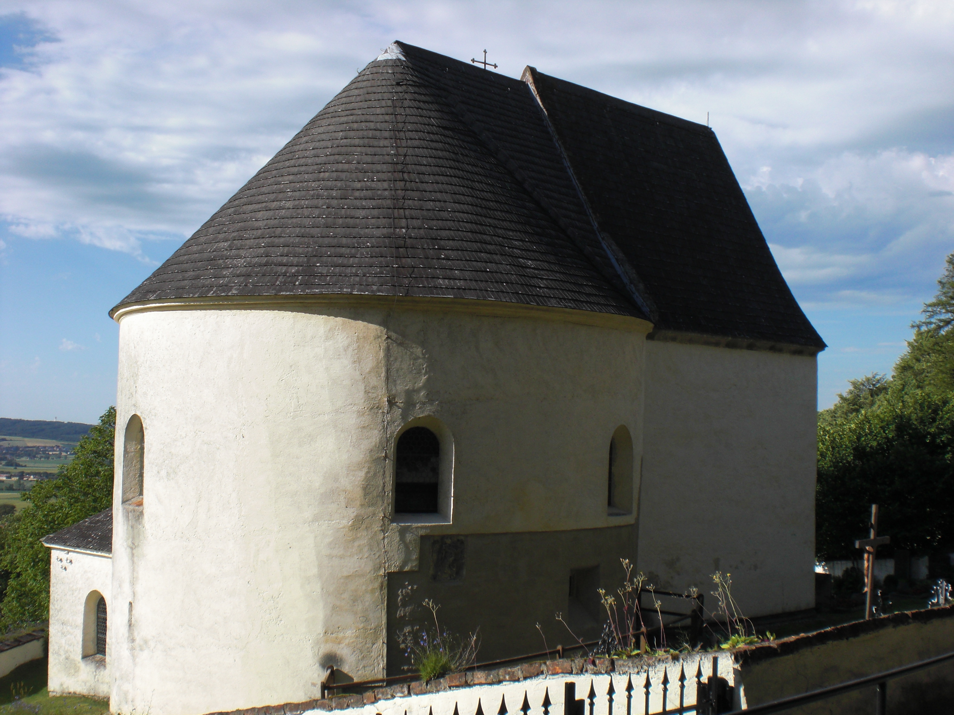 Laurenzi-Kirche (St. Lawrence's) in Haag bei Markersdorf near Neulengbach, Lower Austria